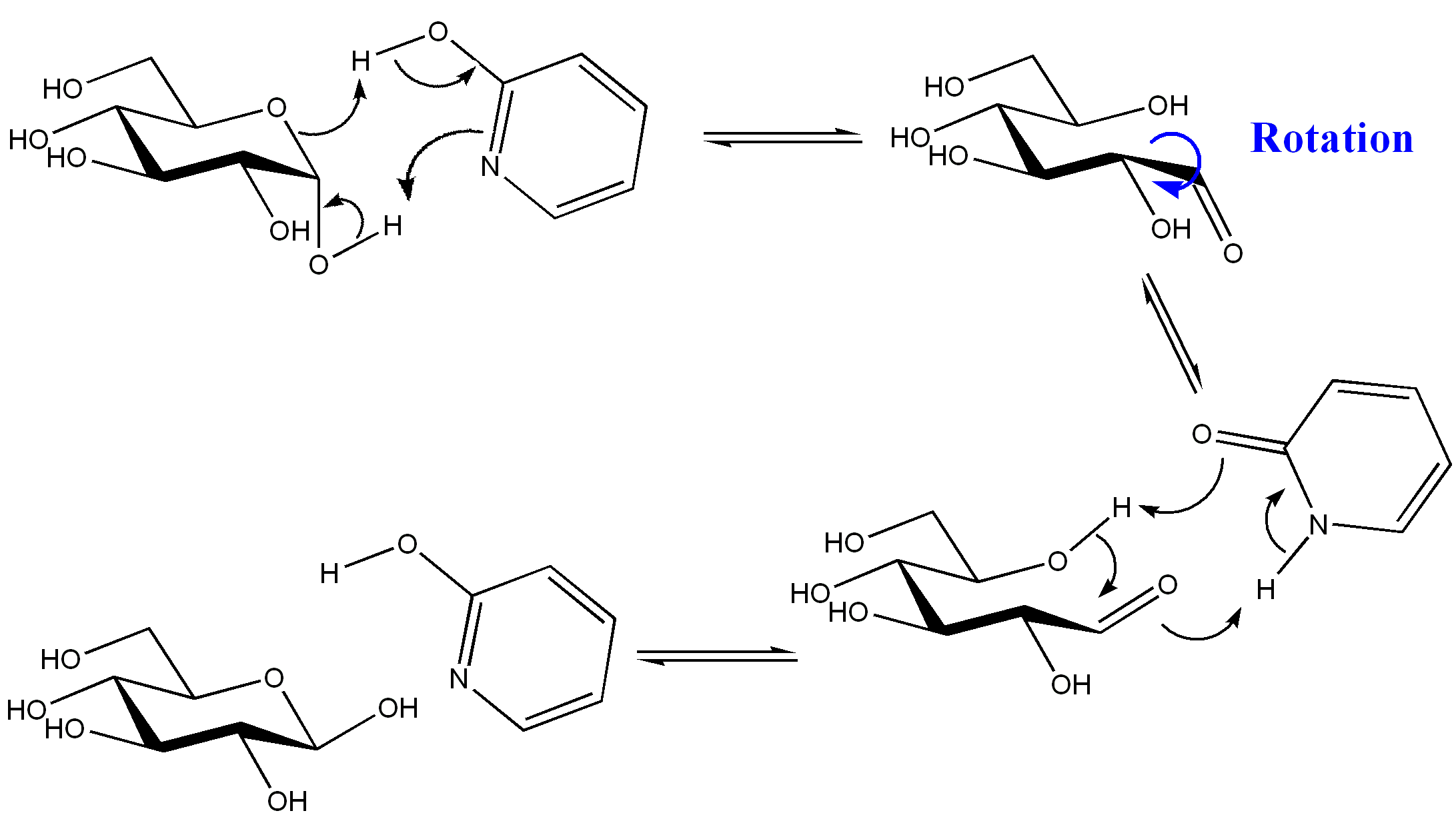 Pyridonemech.png